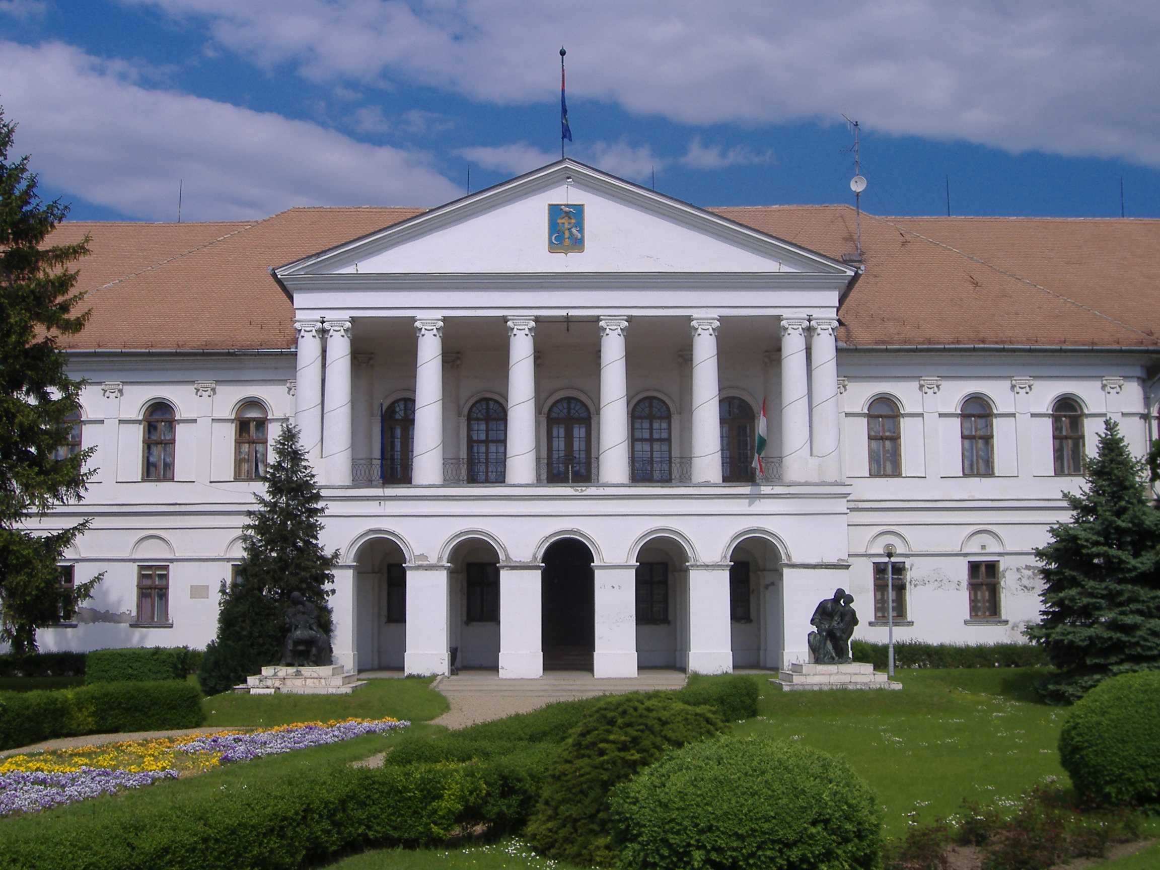 The town hall in Makó, Hungary. The building was the county seat of the former county Csanád.